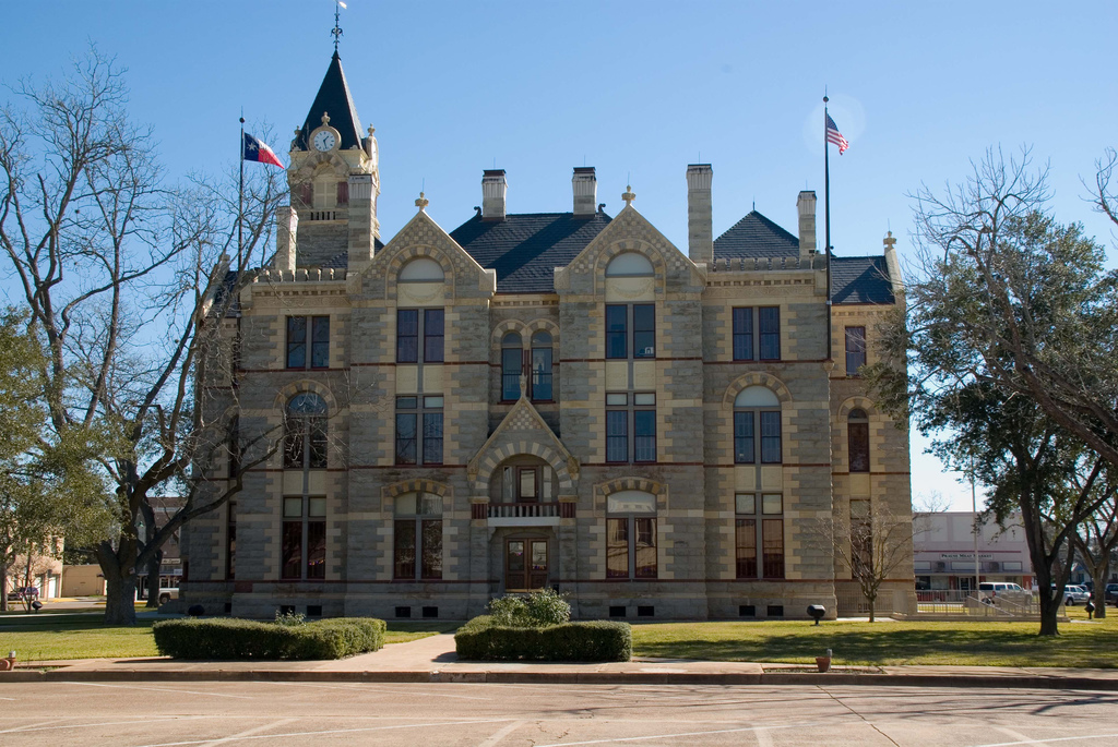 Fayette County courthouse in La Grange, Texas, USA